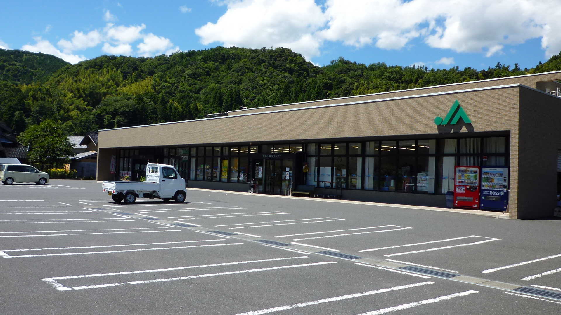 The Kyoto Agricultural Cooperatives Ine Branch